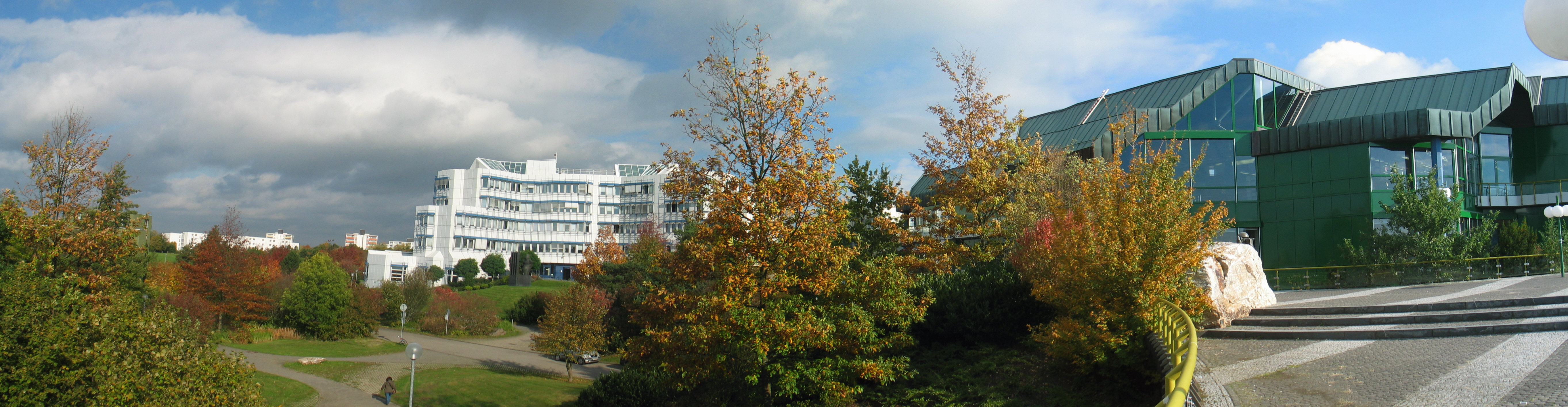 University of Trier - Panorama